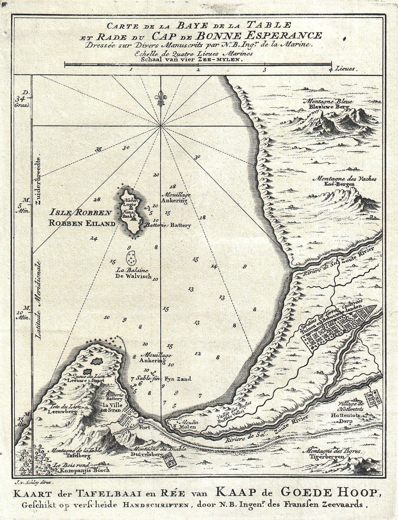 This map is a c. 1773 map of the Cape of Good Hope and Cape Town, South Africa. Attributed to French cartographer Jacques-Nicholas Bellin, this map was issued for the Dutch edition of Provost’s Histoire des Voyages…. Beautifully rendered mountains and villages show the area in considerable detail. Shows the “Village of the Hottentots”, Blue Mountain, Cow Mountain, Table Mountain, The City of Cape Town itself, Tigerbergen, and many other features. Some oceanic depths are indicated. Of interest is also the Isle of Robben, located centrally on the map. Long a place of exile and punishment, this island prison had a reputation for brutality and cruelty. Today a museum honors the site of so much suffering. The Dutch edition of this map is coveted as it was printed on heavier stock and to superior standards compared to most other editions. The actual printing of this edition differs from other editions in the addition of a Dutch title at the bottom of the map and in the addition of Dutch place names. Engraved by Schley.